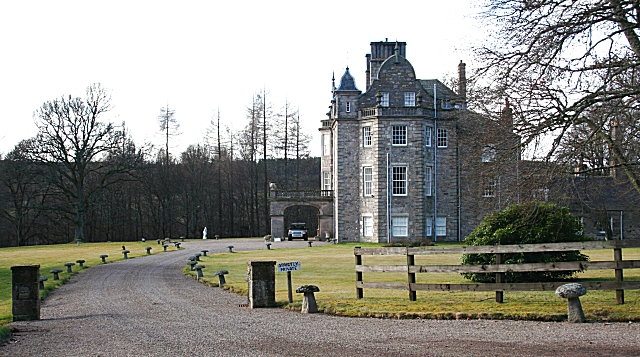 Arndilly House The public road, which is also the route of the Speyside Way, goes right past the gateway to the imposing mansion of Arndilly, formerly the seat of the MacDowall Grant family. The original house was built in about 1750 on the site of an early kirk, and burned down 10 years later. It was rebuilt in 1770, remodelled by architect William Robertson in 1826, and again by Thomas Mackenzie in 1850.